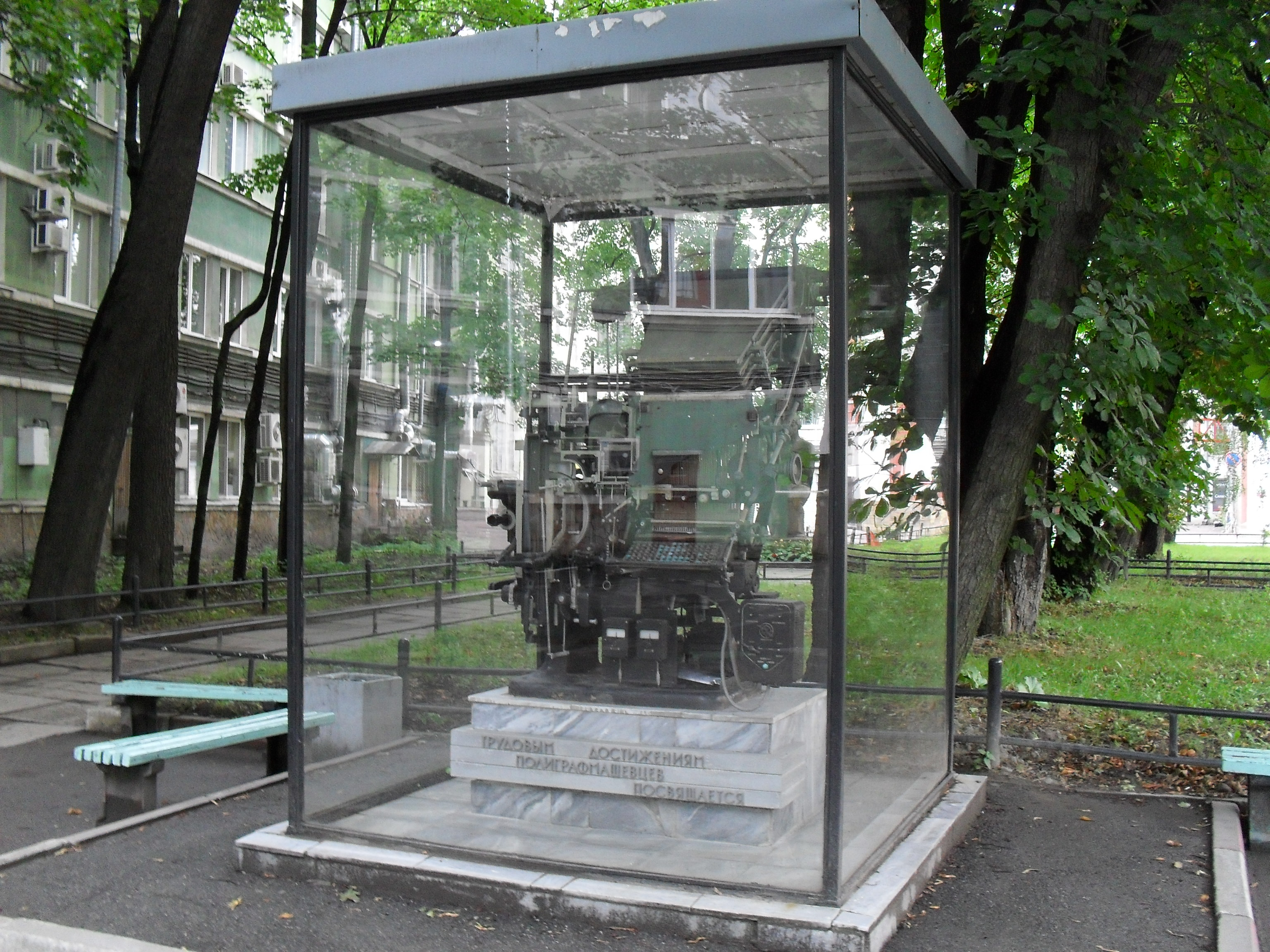 Lenpoligrafmash